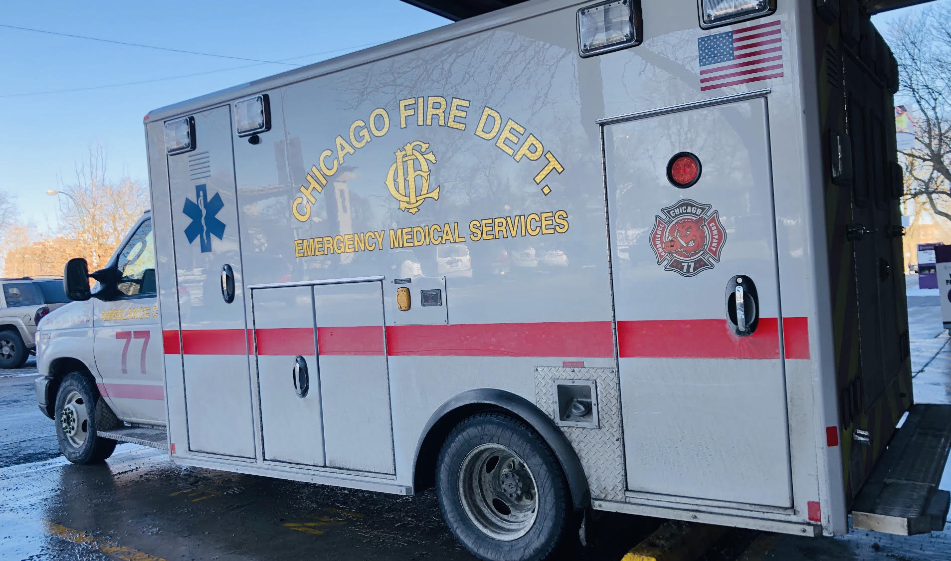 Ambulance 77 Transferring patient care @ St. Anthony Hospital